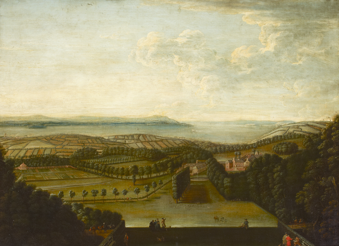 Orchard Wyndham, Somerset. Northward beyond the house is the town of Watchet and its harbour, historically part of the estate, on the Bristol Channel. 18th century British (English) School. Oil on canvas, 97 x 132 cm. National Trust, collection of Petworth House, Sussex, Accession number: 486817. Provenance: accepted by HM Treasury in 1956 in lieu of death duties on the estate of Charles Henry Wyndham, 3rd Baron Leconfield and Egremont (1872-1956) of Petworth House. Transferred to the National Trust.